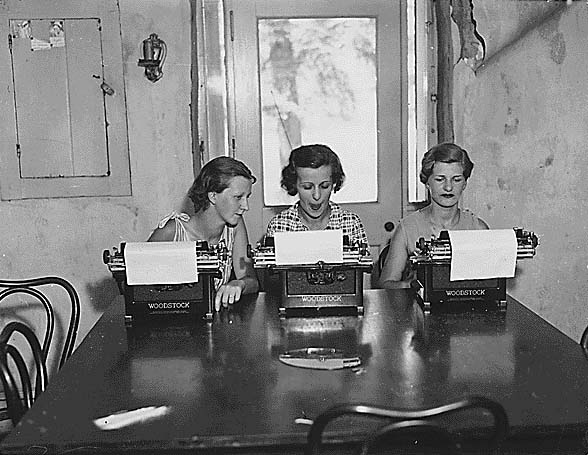 Three women with typewriters. Federal Emergency Relief Administration: FERA camps for unemployed women in Arcola, Pennsylvania; "Second Camp", ca. 07/1934.